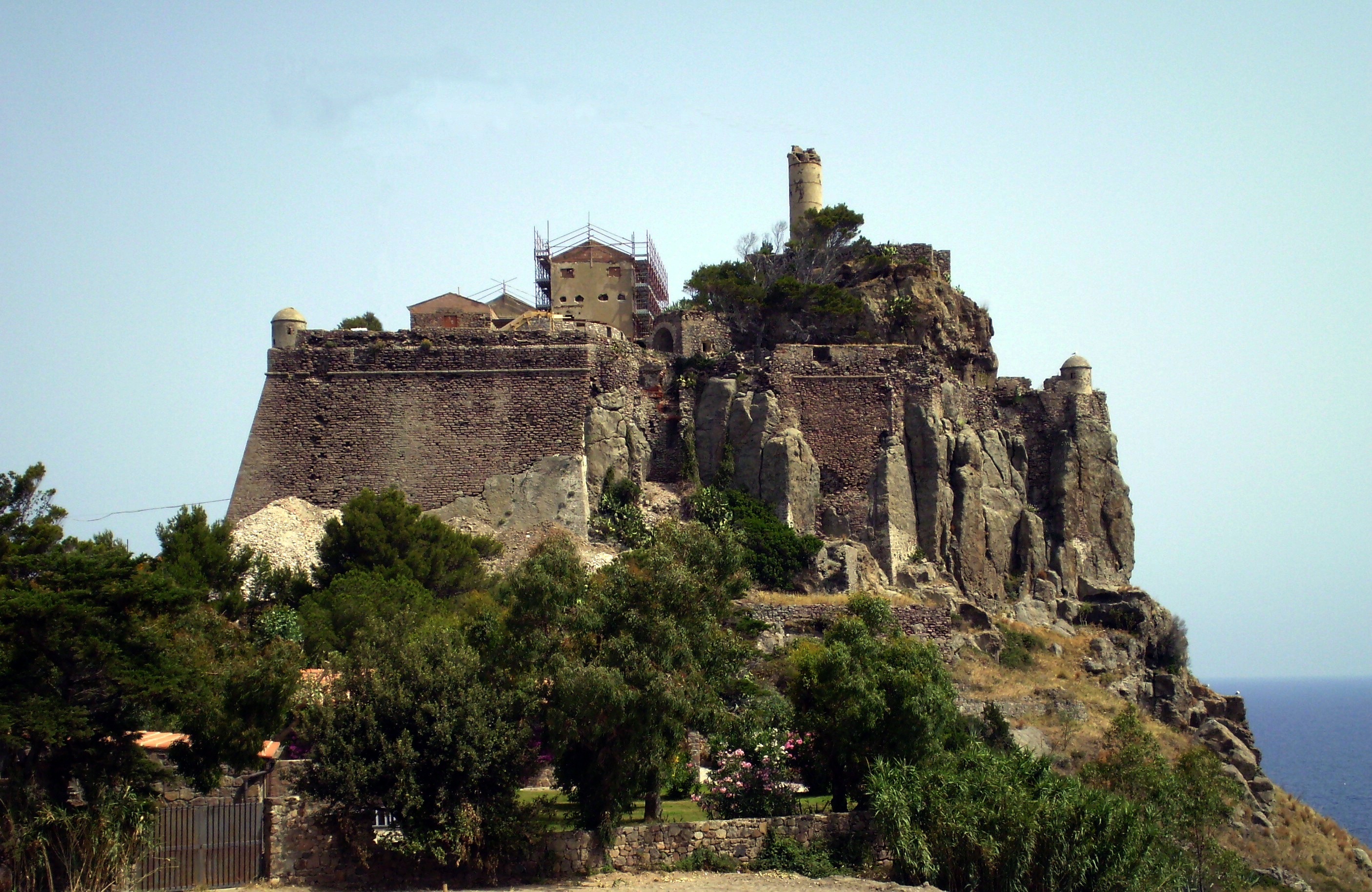 Island of Capraia, Tuscany, Italy. Fortezza San Giorgio